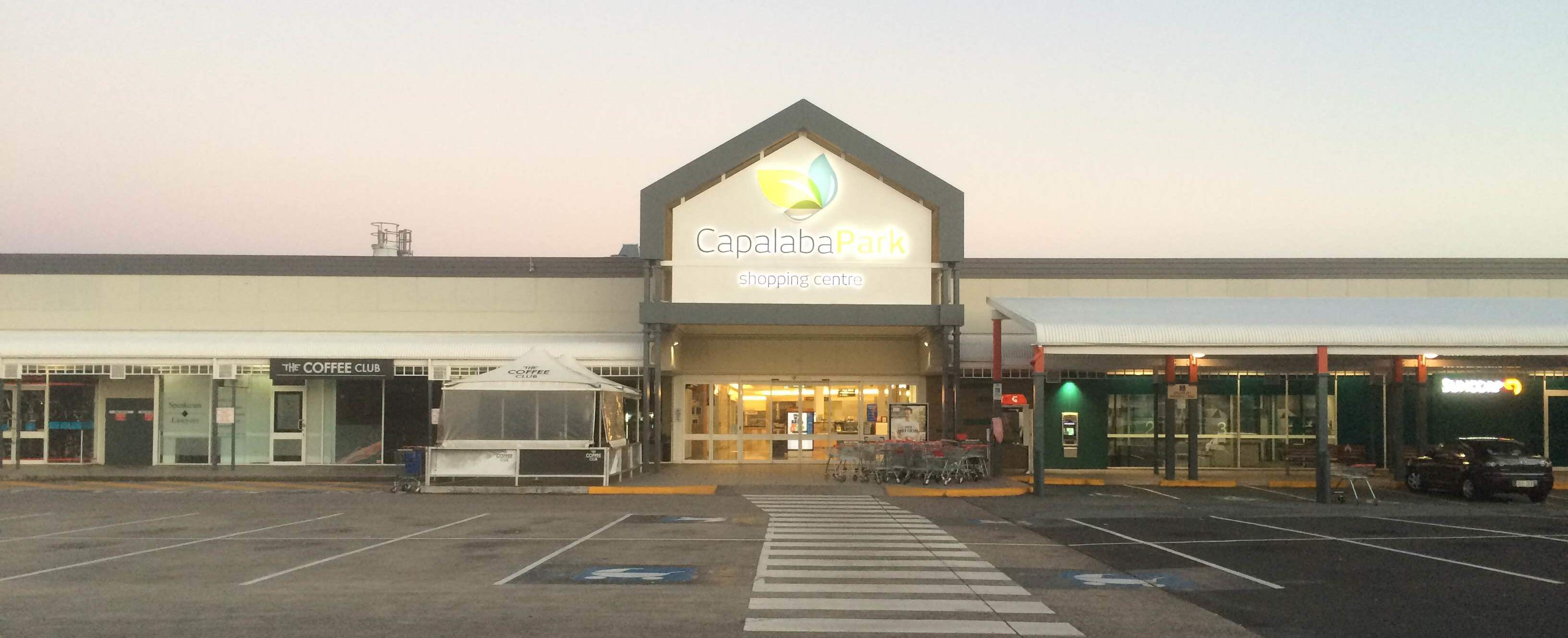 The main entrance and upper carpark of Capalaba Park Shopping Centre